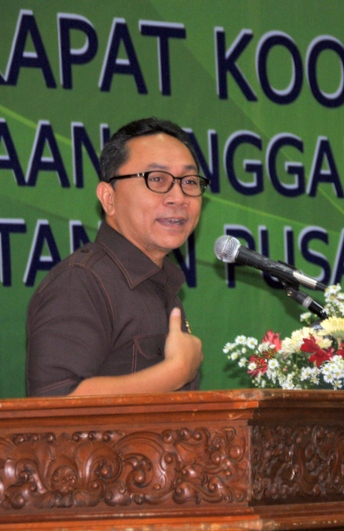 Zulkifli Hasan, the minister of forestry of Indonesia (2009-2014).